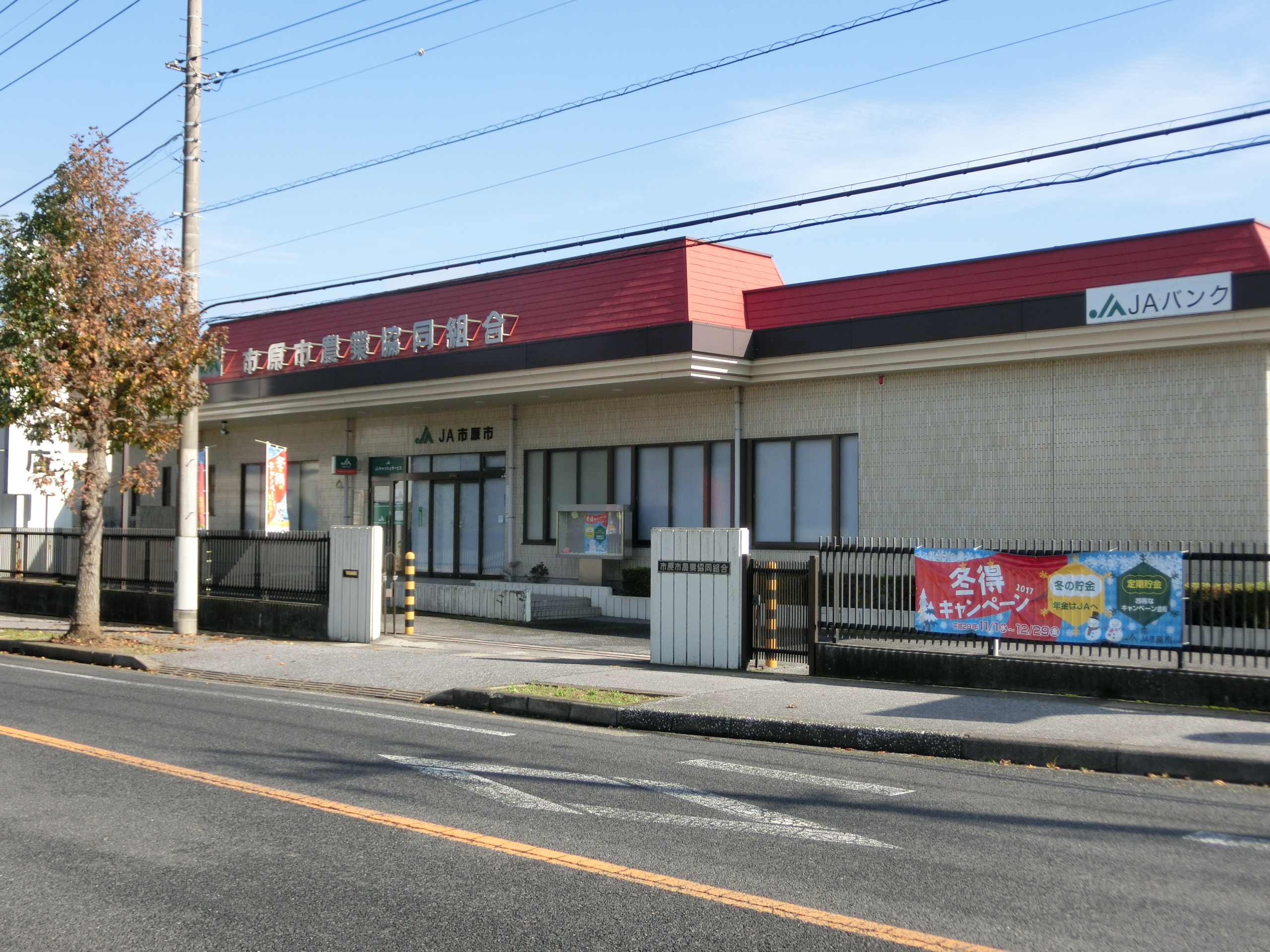 JA Ichihara Headquarters